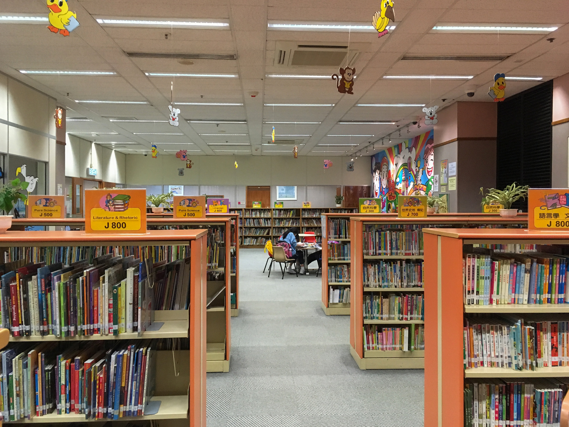 Smithfield Public Library Children area